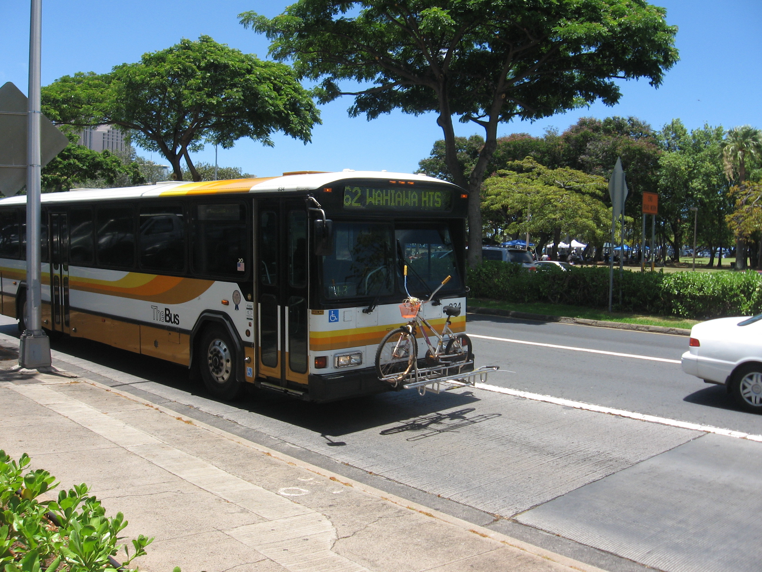 TheBus on Ala Moana Blvd, Honolulu, Hawaii.